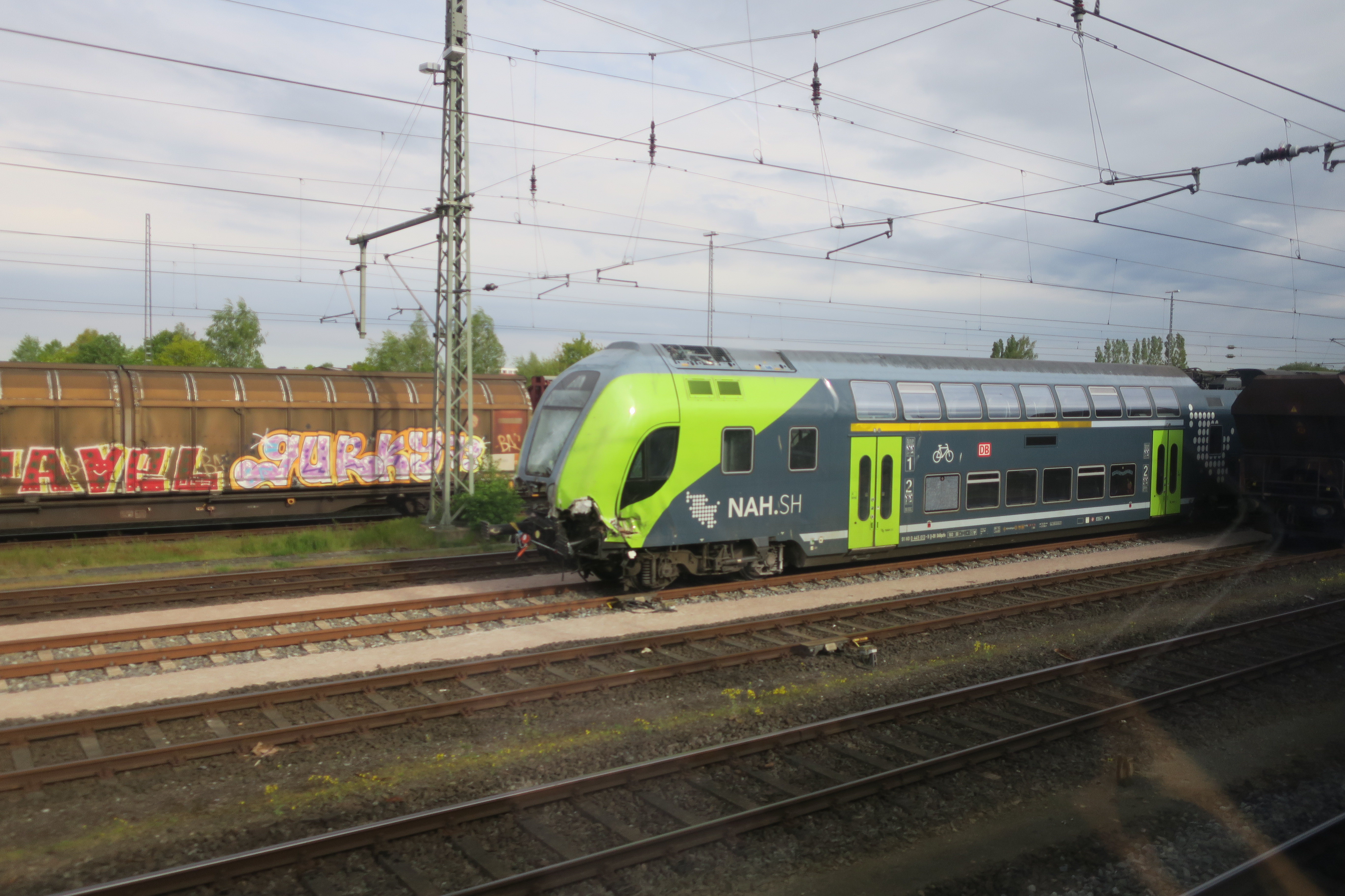 After a collision with a semitrailer in Alt Duvenstedt the damaged train was deposited at the yard of Neumünster.